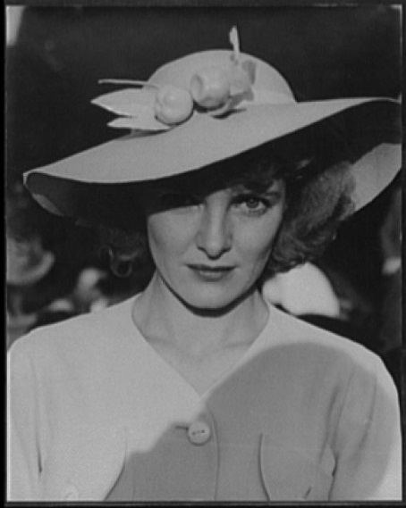 Portrait of Linda Watkins